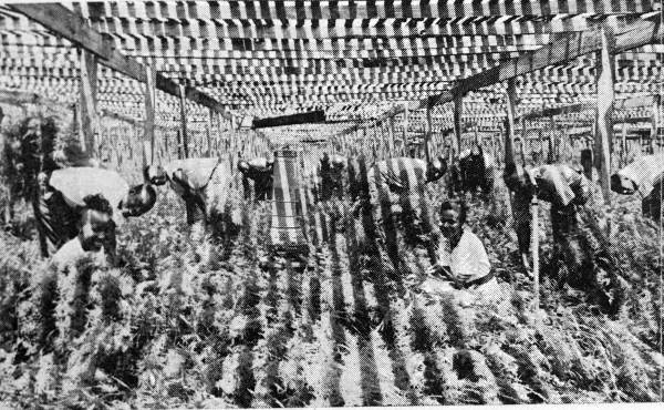 Original caption reads: The basic industry of our Town is the growing of Asparagus Plumosus Fern for northern florists. Over 3,000,000 sq. ft. is covered with this lattice work giving half shade and soft velvet color to the delicate Fern. Fixed sprinklers and oil heaters protect our customers supply from draught or frost.